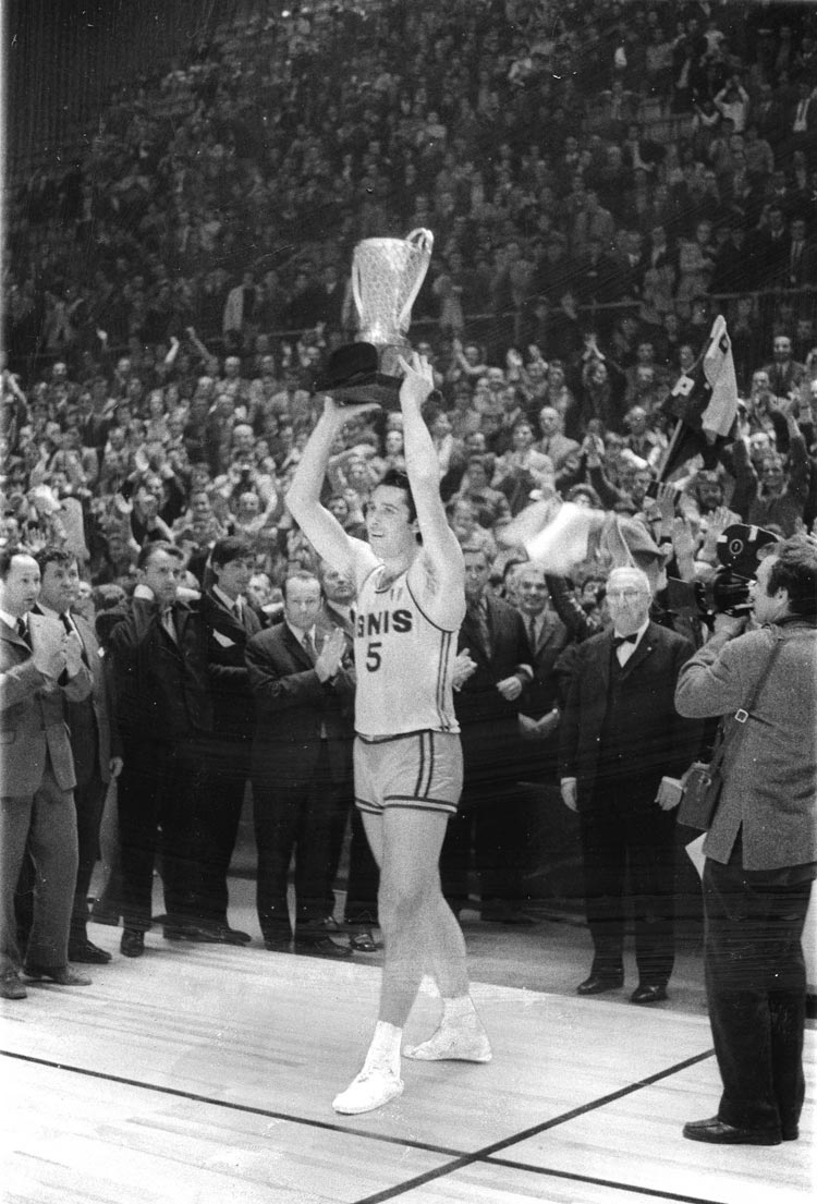 Ottorino Flaborea lifts the 1970 European Cup trophy as Ignis Varese won a 1969–70 FIBA European Champions Cup Final.